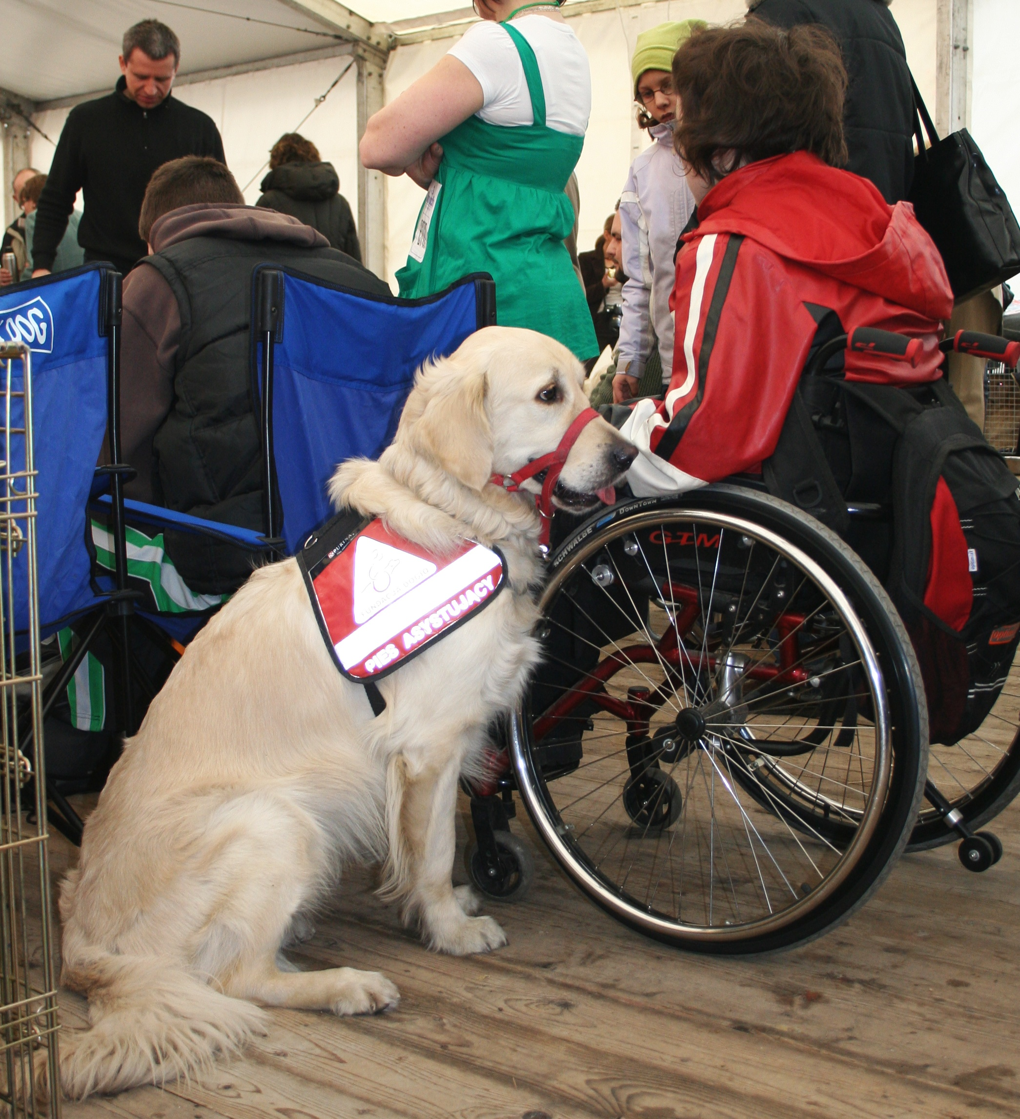 Golden Retriever as assistance dog during the international dogs show in Katowice, Poland.